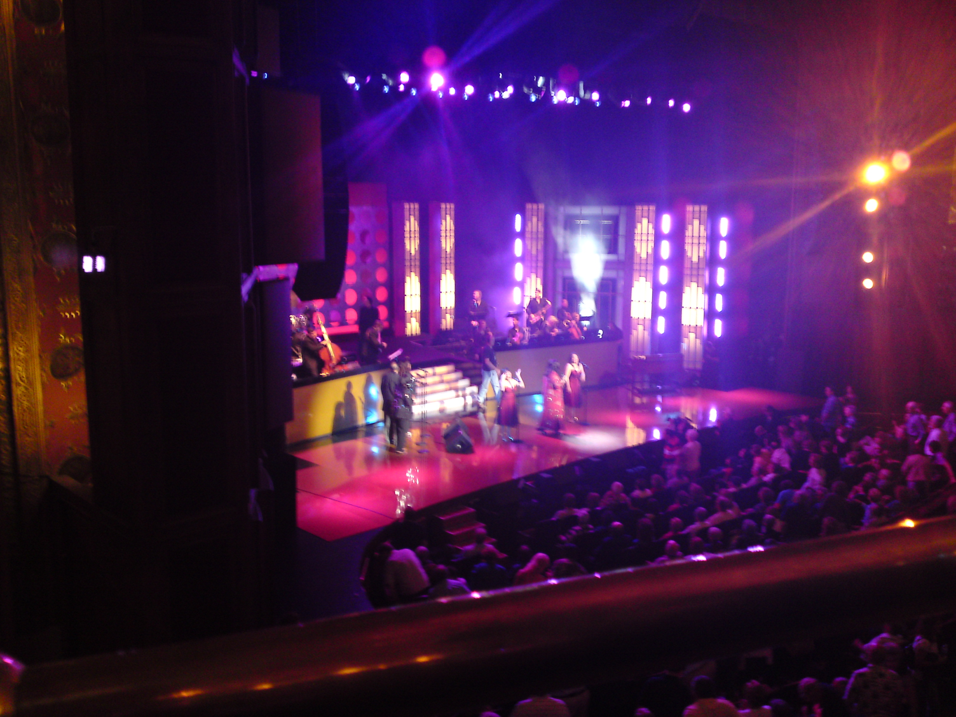 The Benedum Center for the performing arts in Pittsburgh, Pennsylvania. The picture was taken during the doo wop festival celebrated in May 2010.